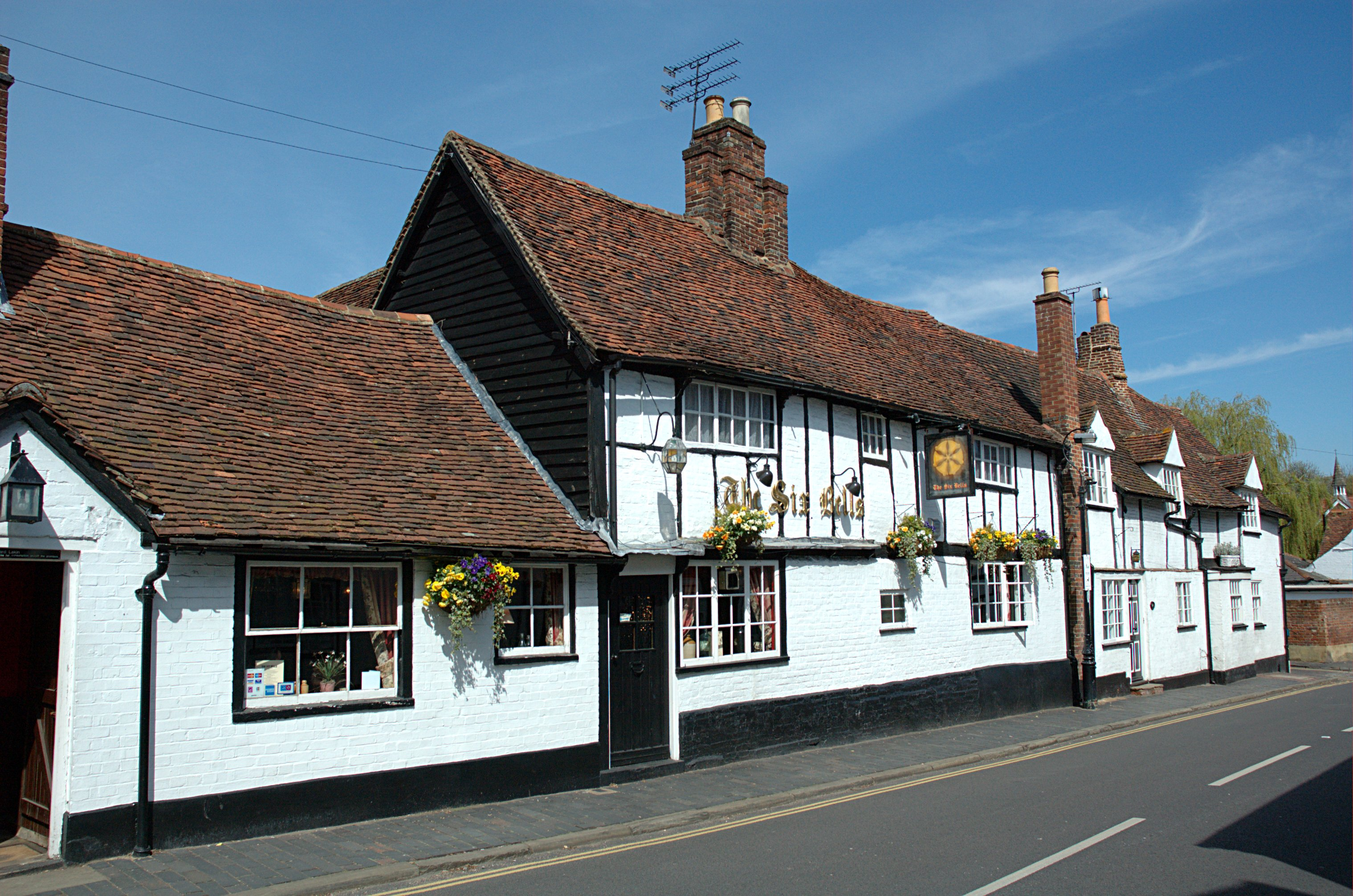 The Six Bells, St. Michaels Street, St Albans, Hertfordshire, England, UK